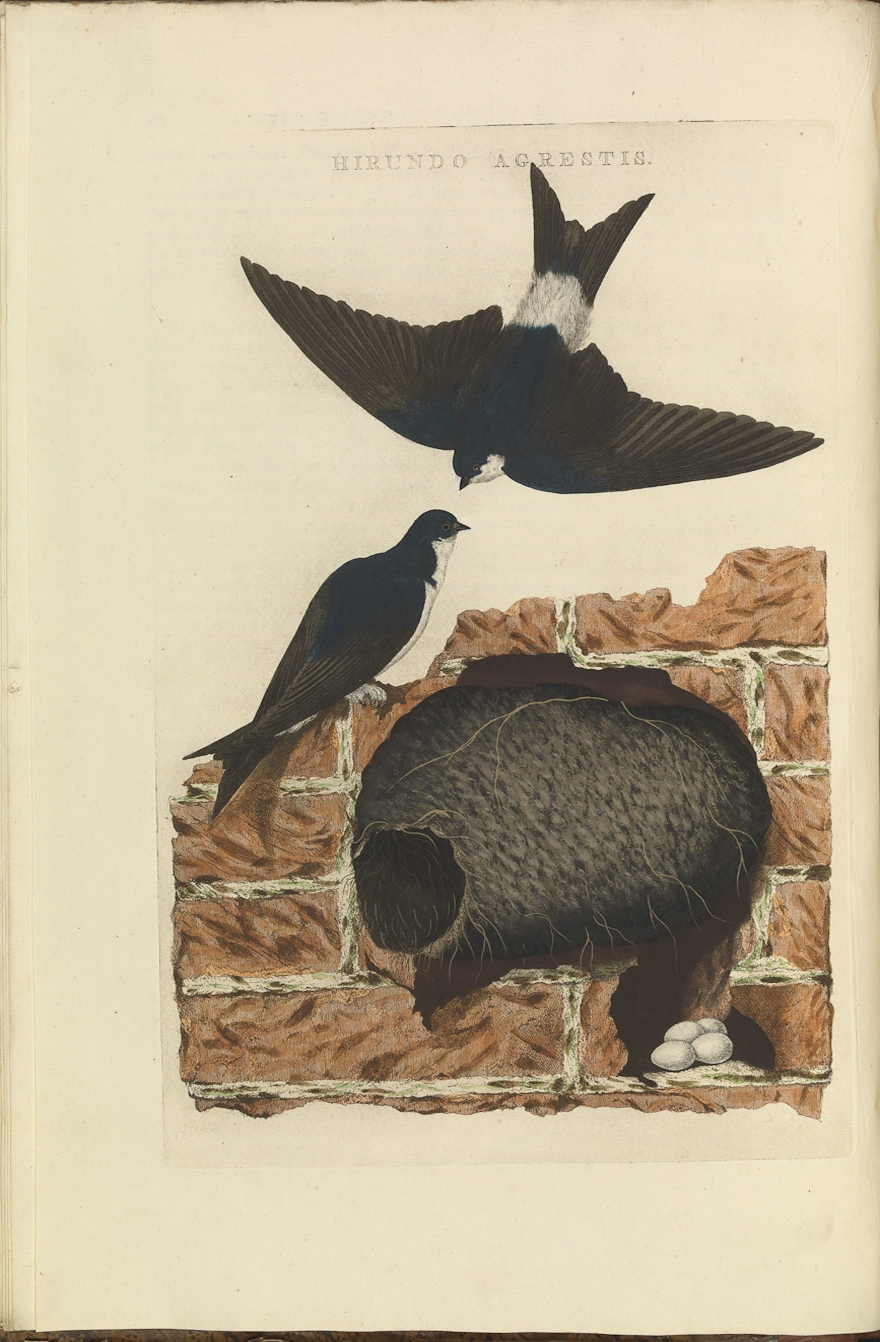 Plate 18 from the Nederlandsche vogelen by Nozeman and Sepp.